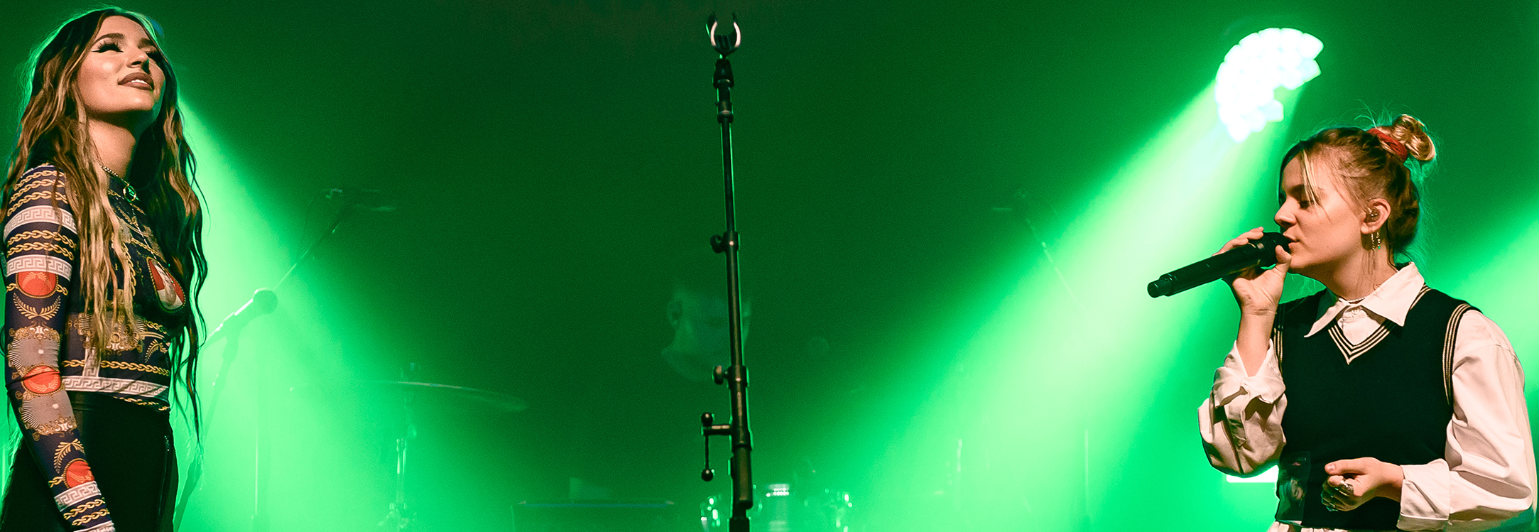 Lennon Stella performing live at The Fonda theatre in Los Angeles, California, on Wednesday, April 3, 2019. Shot for Pass The Aux.